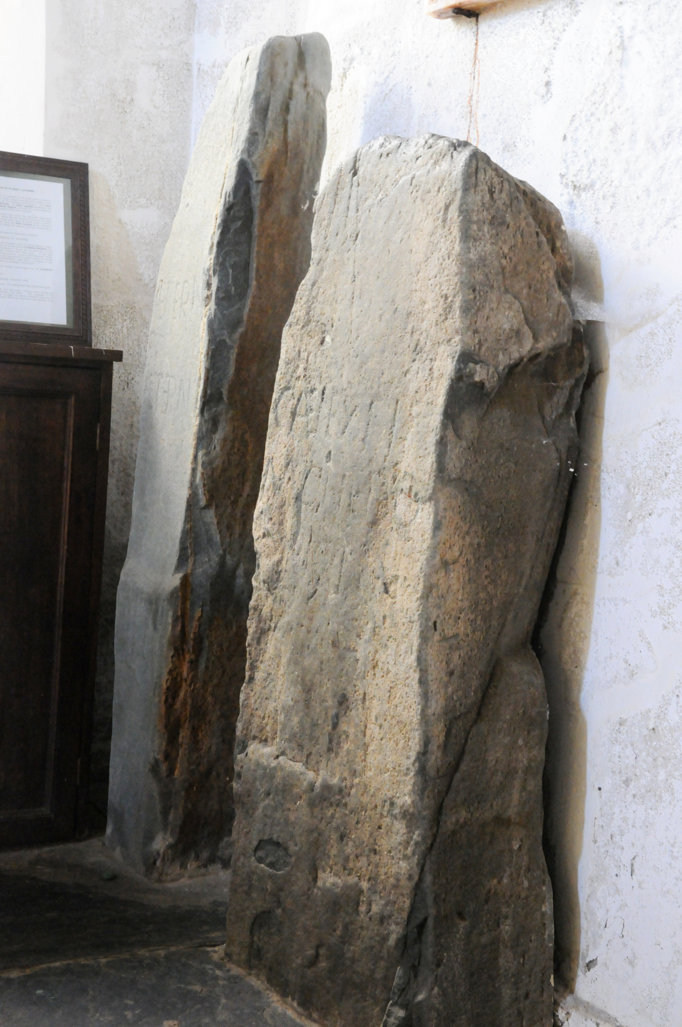 Norman Church St. Mary and Bodfan in Llanaber (Barmouth), Wales